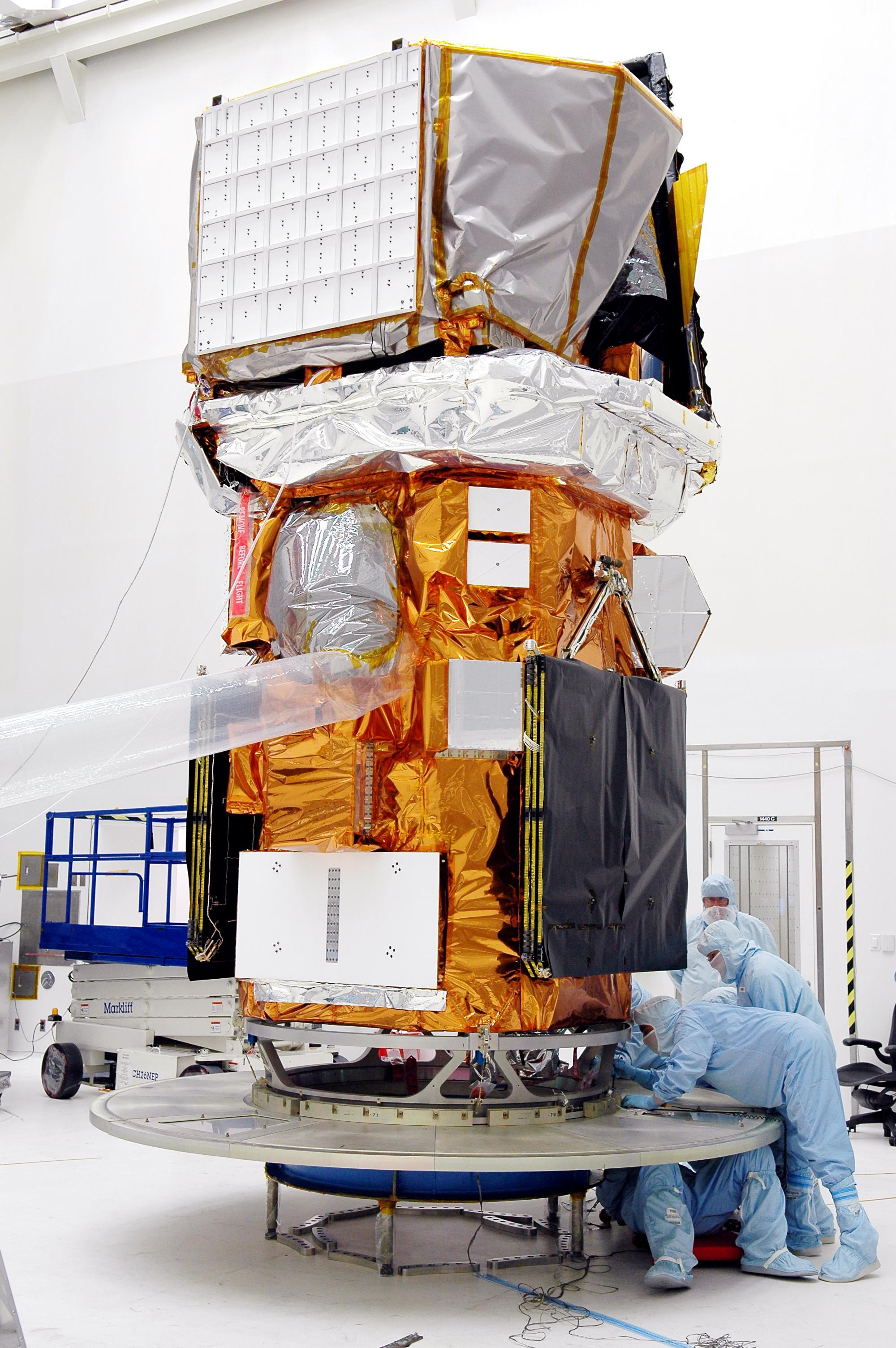 At NASA’s Hangar AE on Cape Canaveral Air Force Station (CCAFS), Fla., technicians check the attachment of the base petals of a transportation canister around the bottom of the payload attach fitting on the Swift spacecraft.